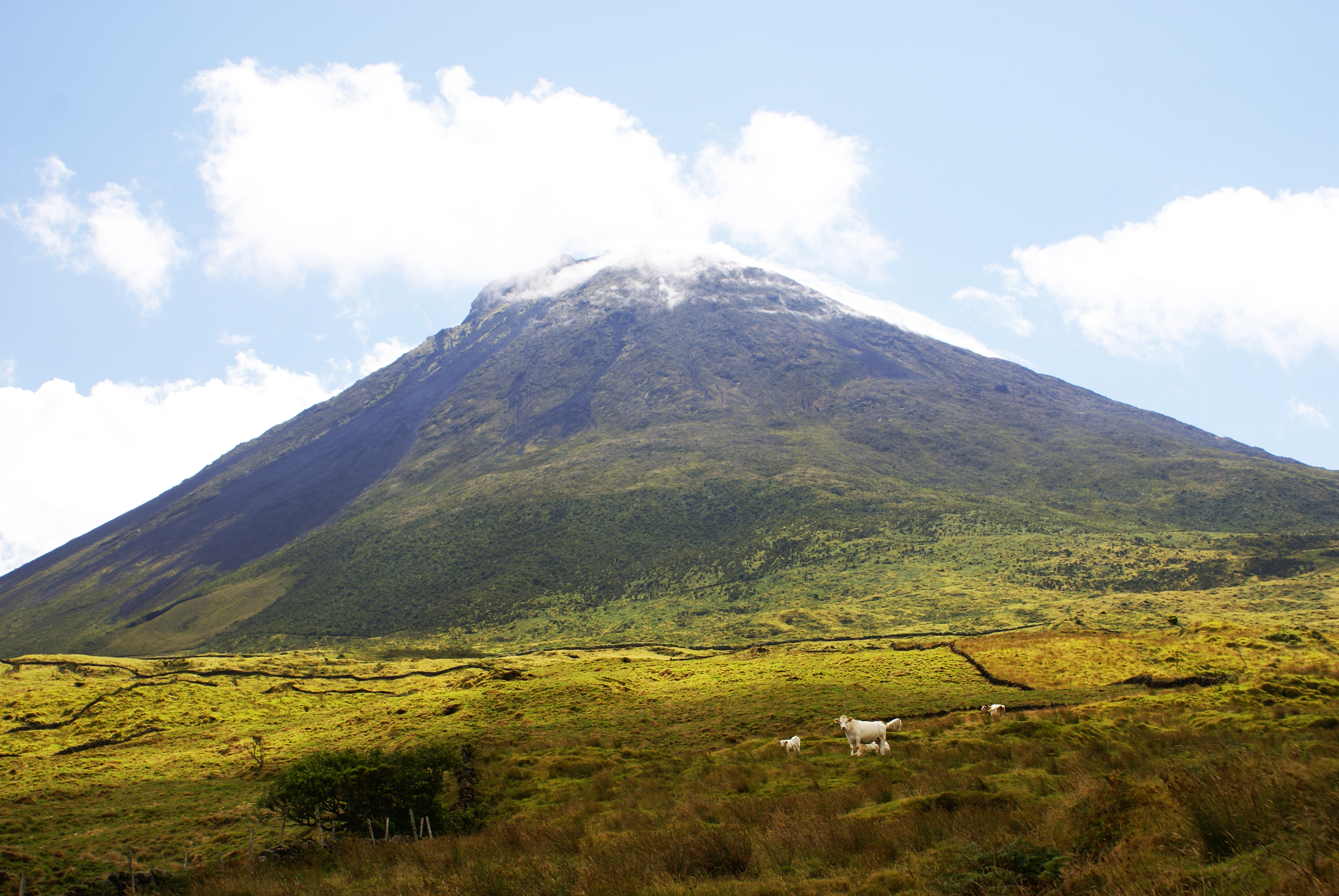 Montanha do Pico, aspectos 12 ilha do Pico, Açores, Portugal